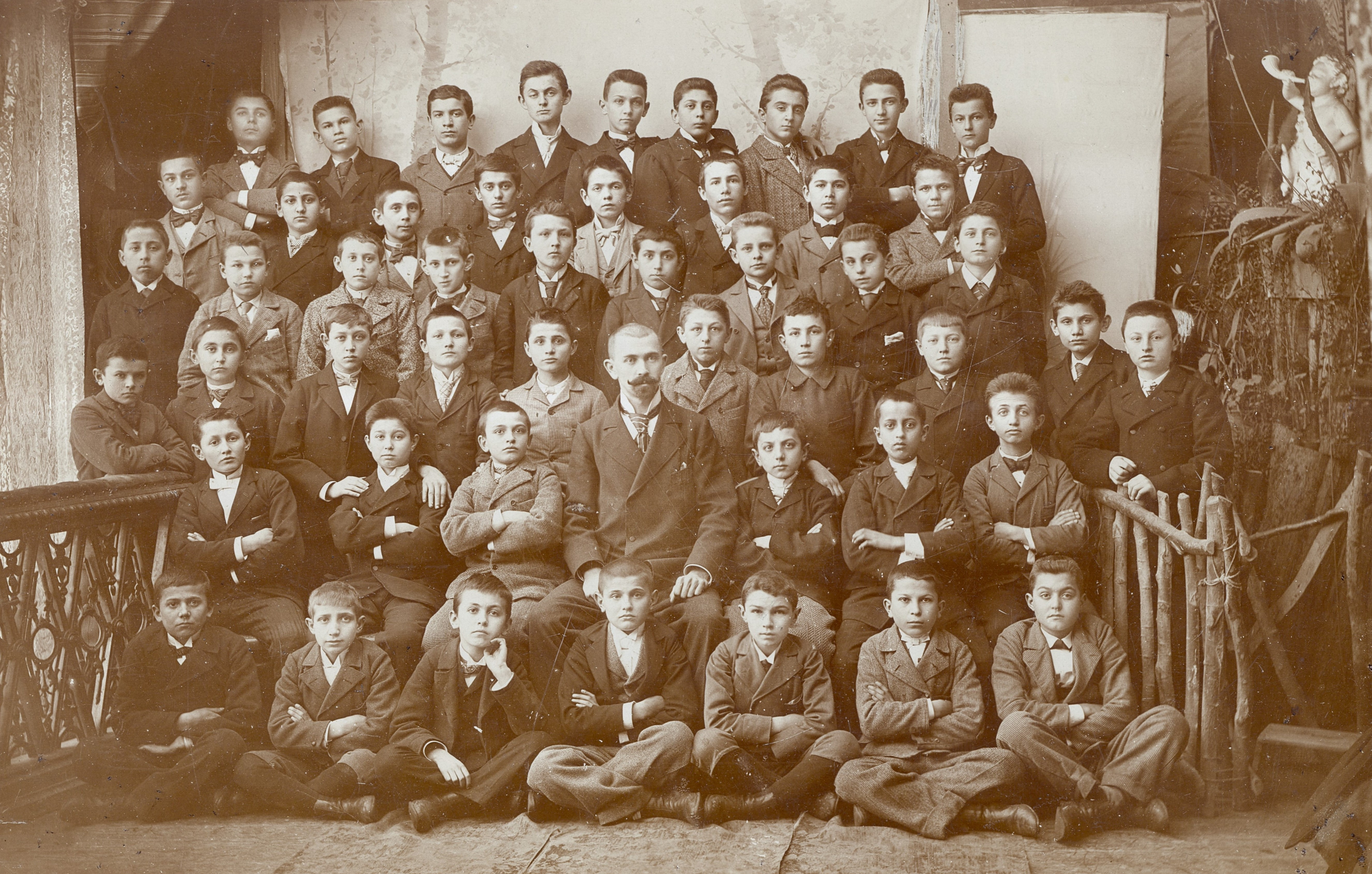 Photograph of First grade of the Serbian Orthodox Gymnasium in Novi Sad with their homeroom teacher Tihomir Ostojić (1892), inventory number 322. Srpski (latinica): Fotografija I razreda Srpske pravoslavne velike gimnazije u Novom Sadu sa razrednim starešinom Tihomirom Ostojićem (1892), inventarski broj 322.